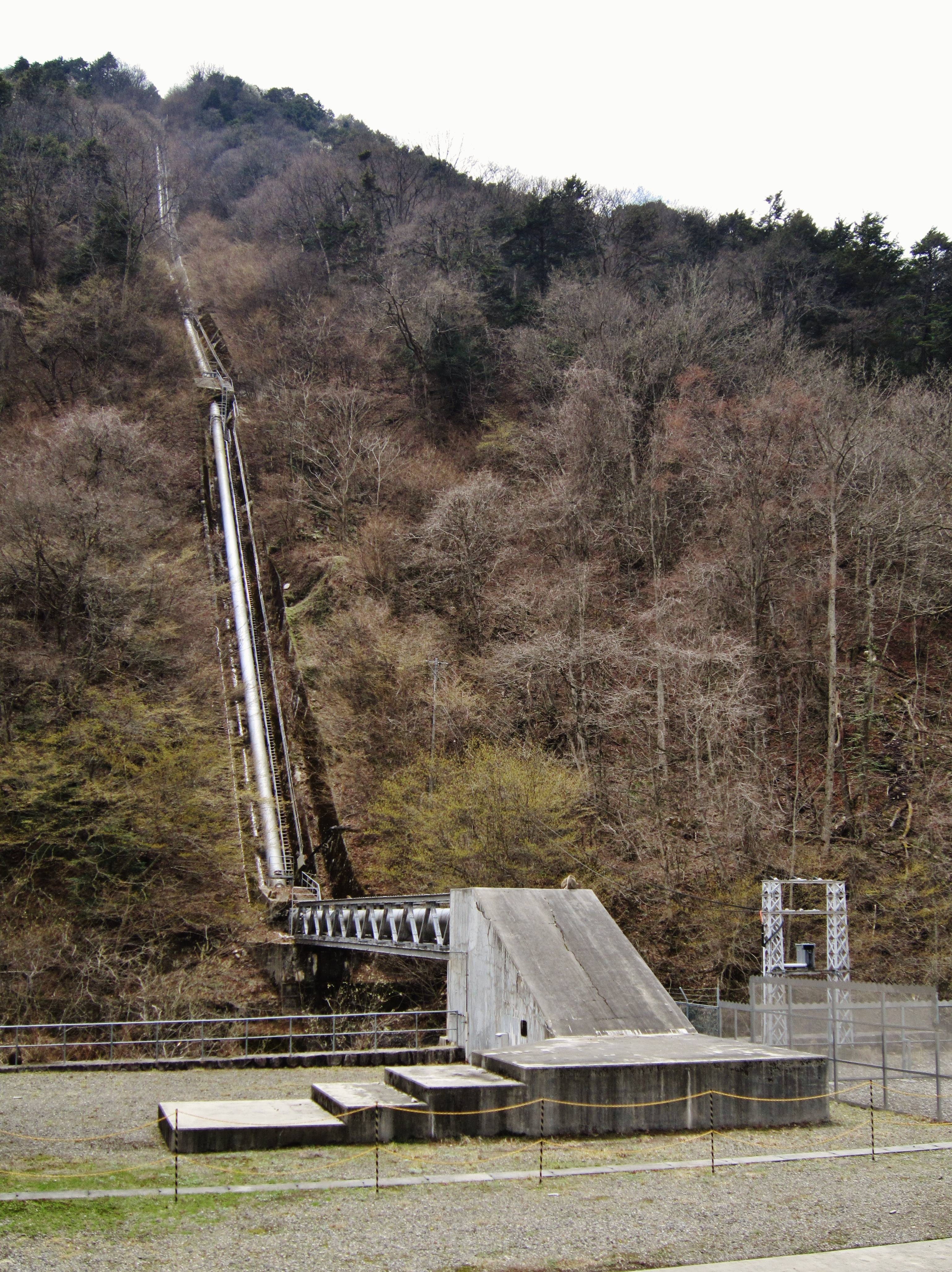 Nakabusa IV power station penstock.